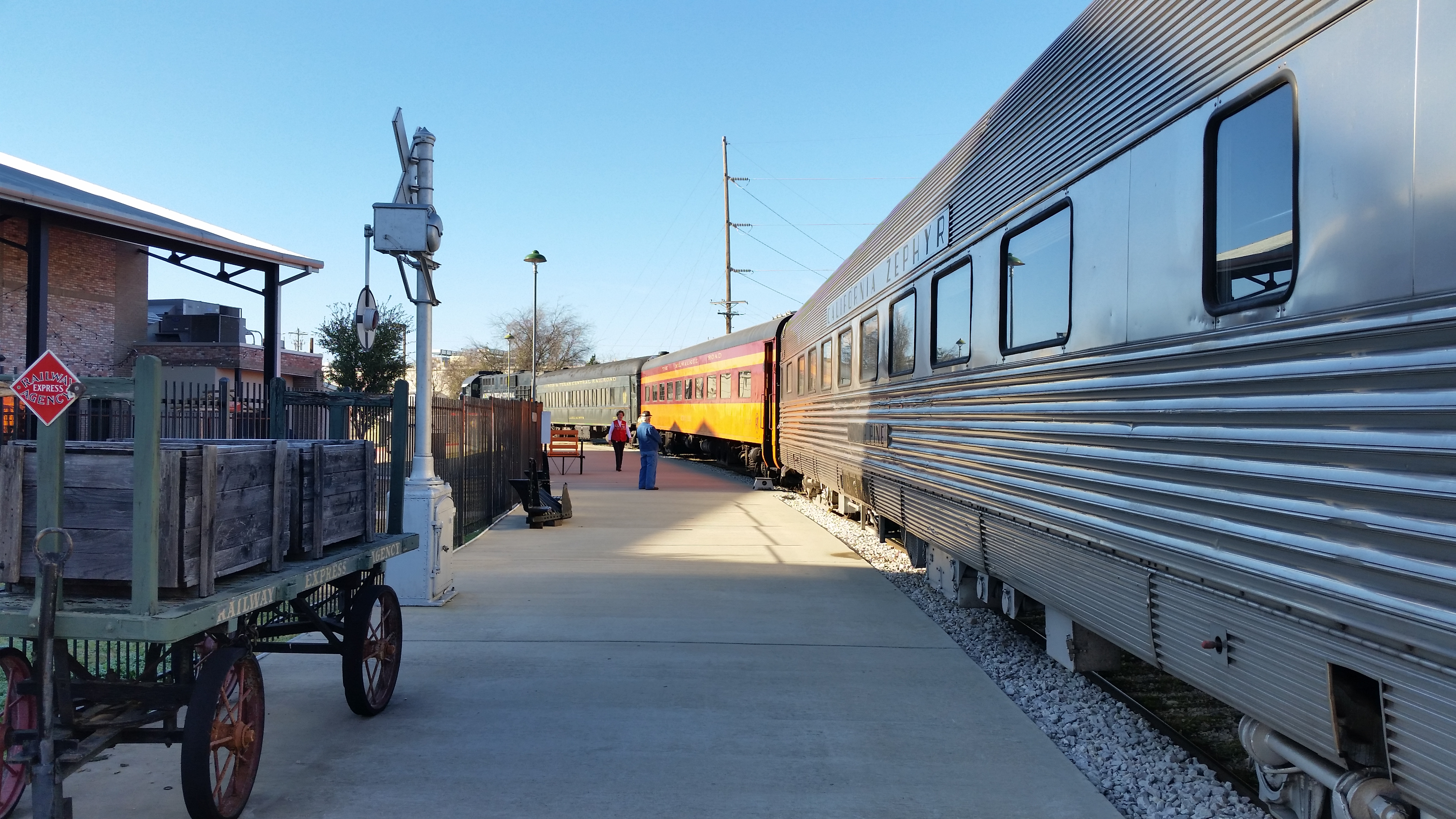 Cedar Park Depot, Texas. ex-California Zephyr service Silver Pine in foreground.